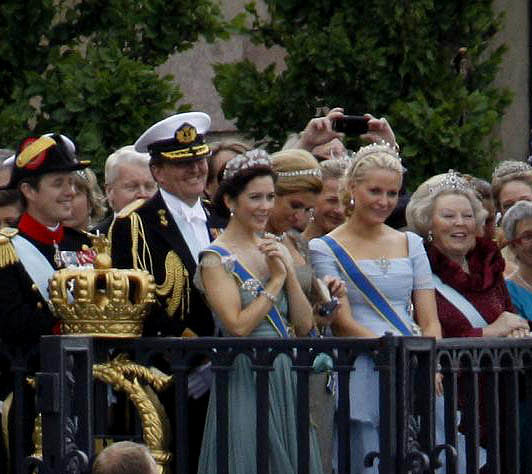 Royal guests; CP Frederik of Denmark; CP Willem-Alexander of the Netherlands; CP Mary of Denmark; CP Maxima of the Netherlands; CP Mette-Marit of Norway and HM Queen Beatrix of the Netherlands